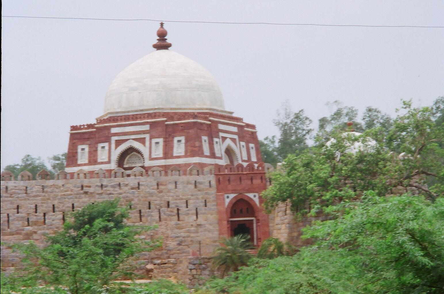 Entrance gate to Ghiyasuddin tomb in Tughlaqabad Fort